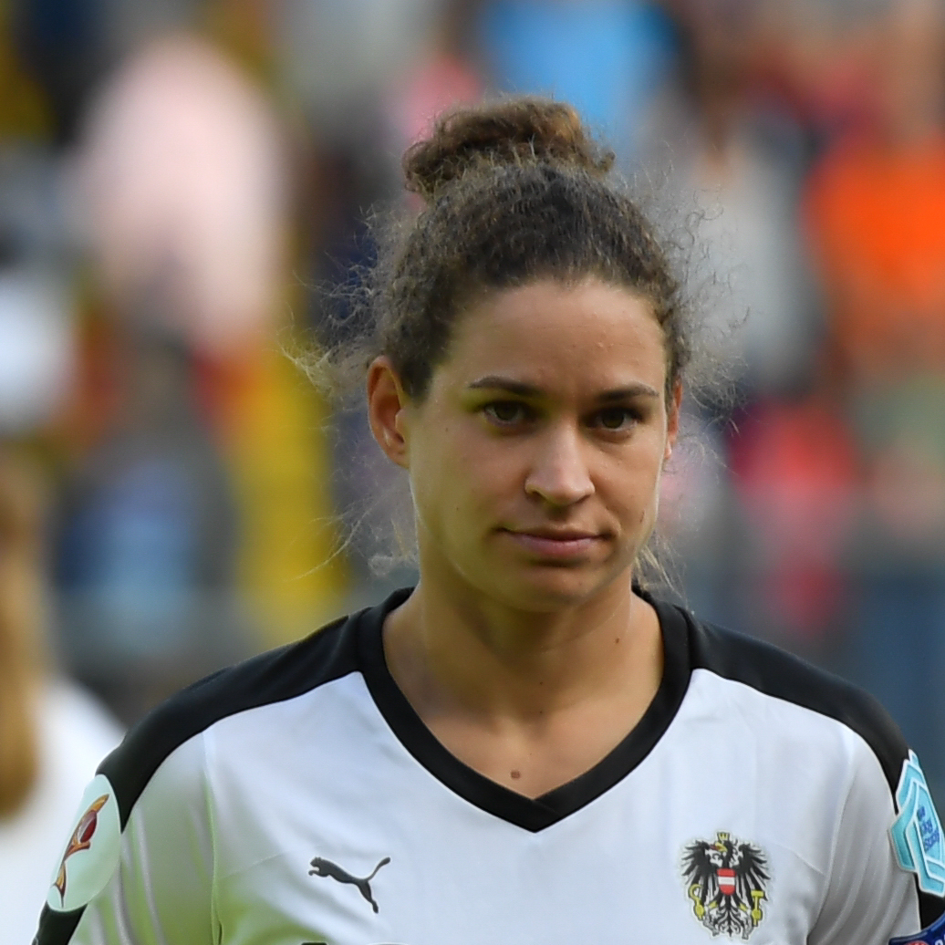 3/8/2017, Breda, Netherlands, sports, soccer, UEFA Women's Euro 2017 - Semifinal - Denmark vs Austria.